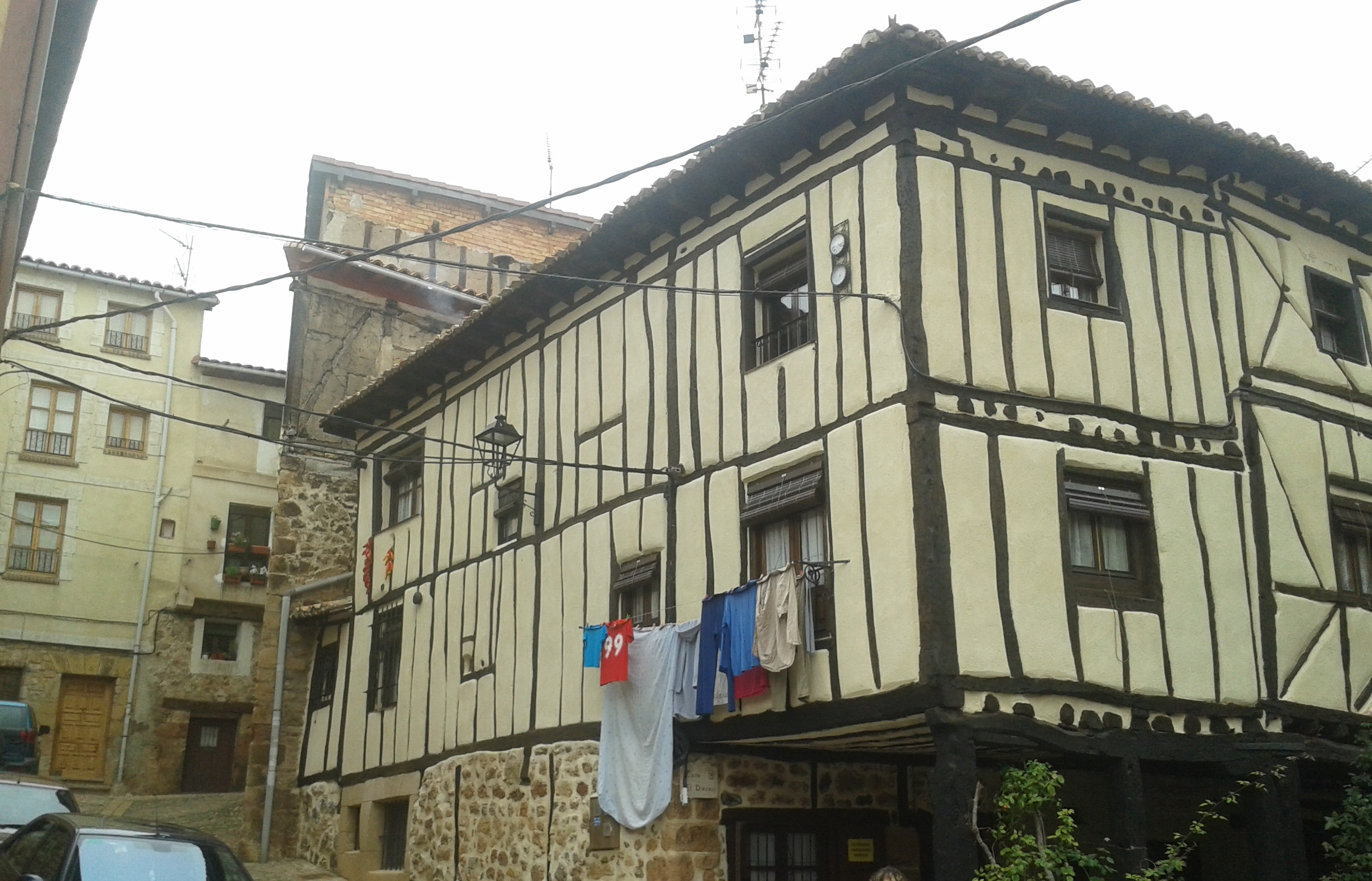 Centro histórico de Poza de la Sal, Castilla y León, España